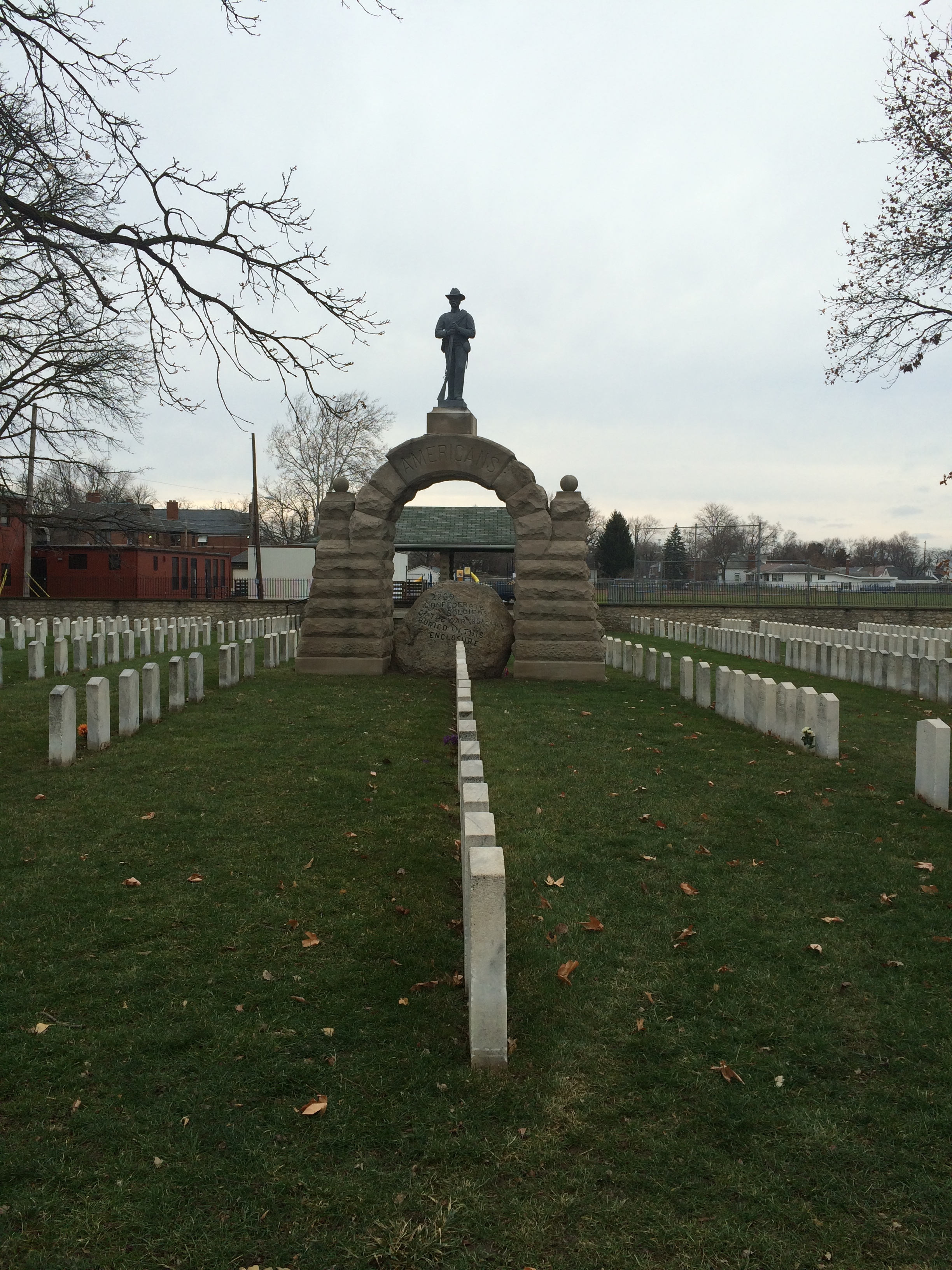 Camp Chase graves